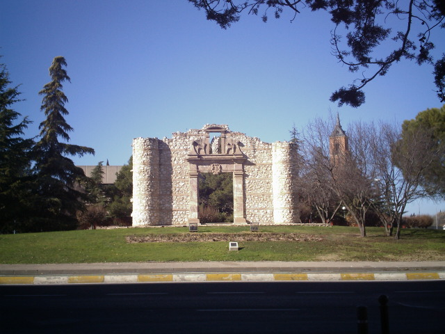 Ciudad Real - Spain.